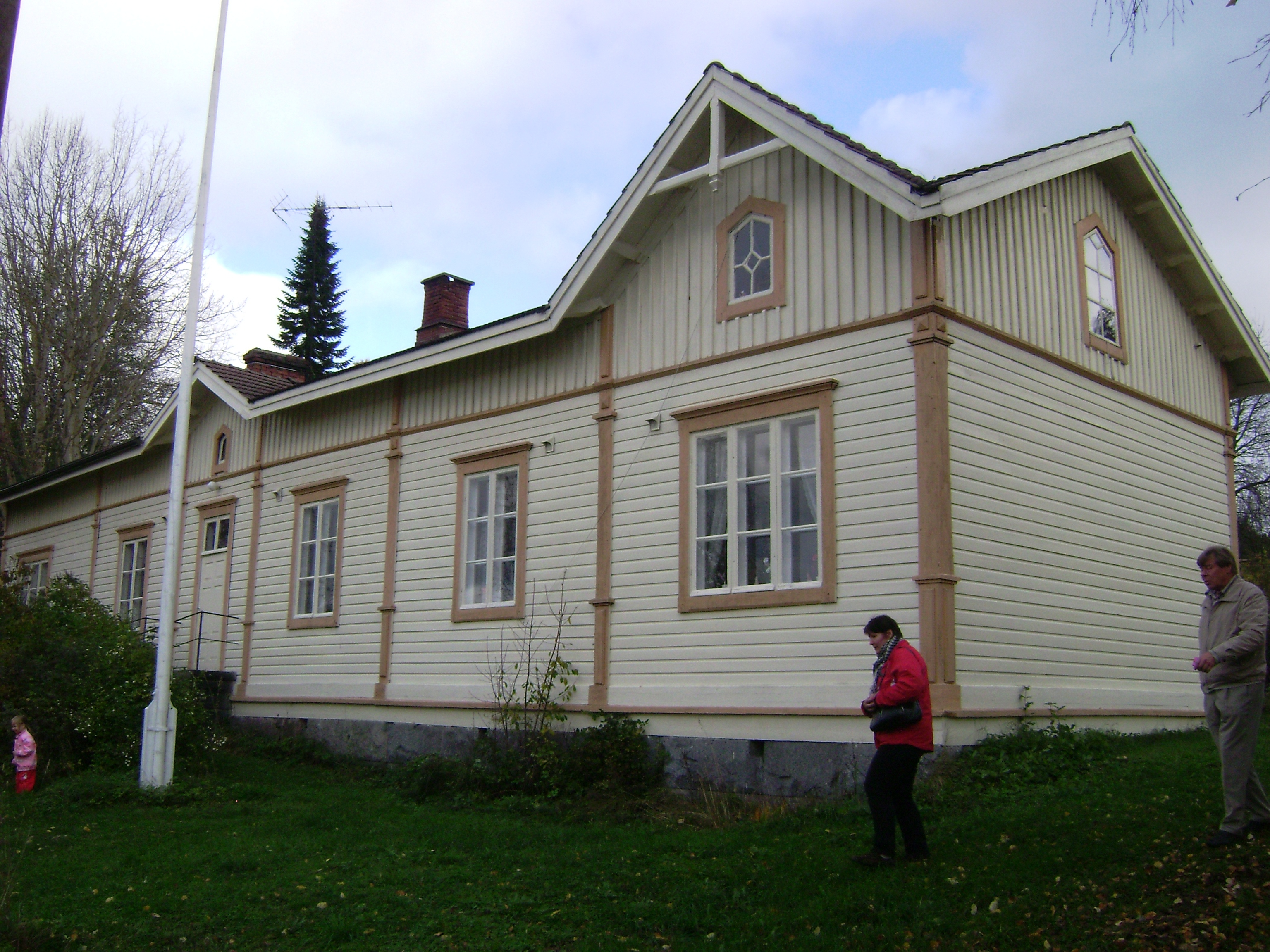 Otava harbour railway station in Mikkeli, Finland.